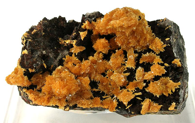 Tsumcorite Locality: Tsumeb, Otjikoto (Oshikoto) Region, Namibia (Locality at ) Size: miniature, 5.2 x 2.9 x 2.2 cm Tsumcorite An incredibly rich and , more importantly from some points of view, PRETTY, tsumcorite specimen with real display quality to it! Usually, these are smears on lumps of rock. This piece, however, has huge, 3-dimensional aggregations of relatively robust and large crystals to 1 cm , on contrasting matrix. Bright yellow is rare, compared to brown and ruddy orange tsumcorite. The relief and display quality of this specimen made it leap out at me. It was found on Sept 4 , 1976, in the DeWet Shaft of the mine, and I think the German label with it indicates on the 33 level, W-50 stope. Specimens of this calibre are EXTREMELY rare and this is a major piece for any Tsumeb collection, rare or common. (TYPE LOCALITY)